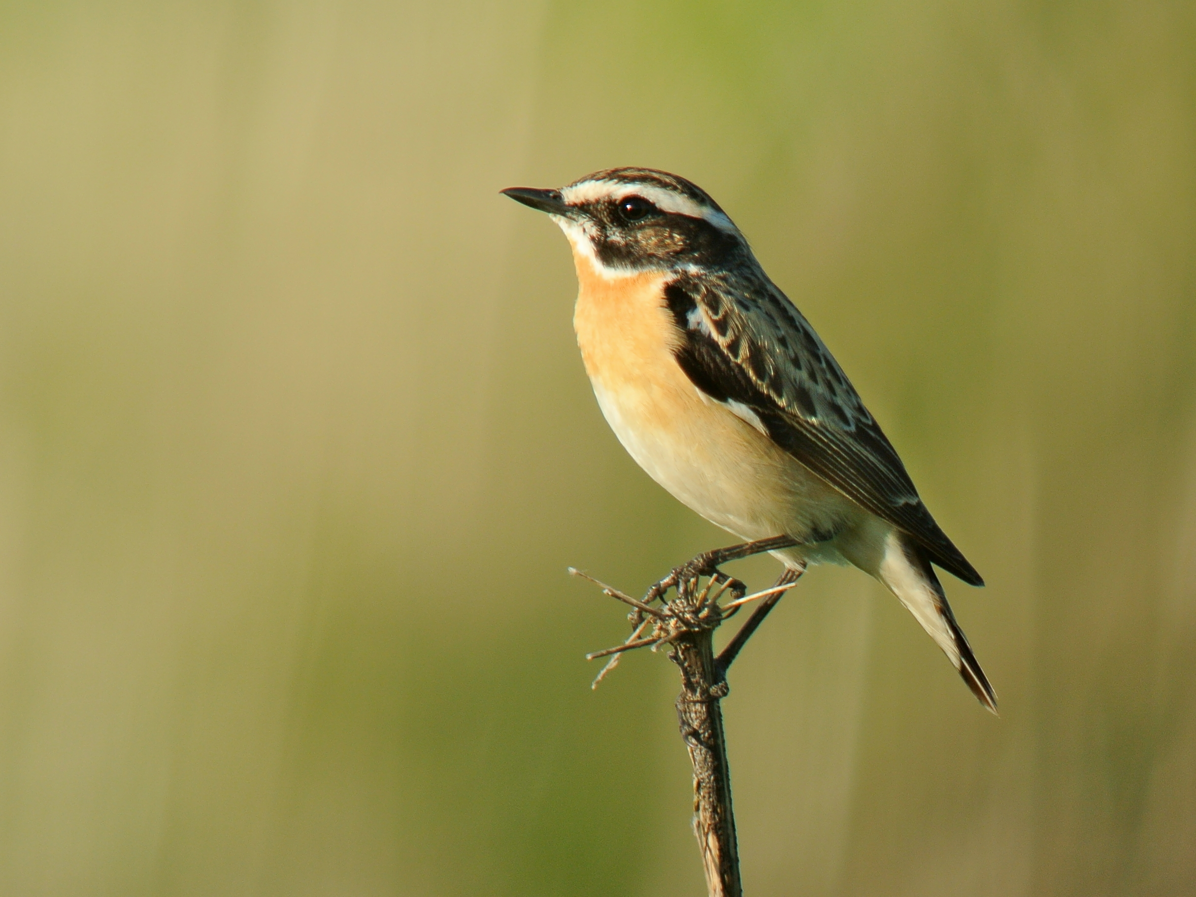 A male Saxicola rubetra in Belgium.